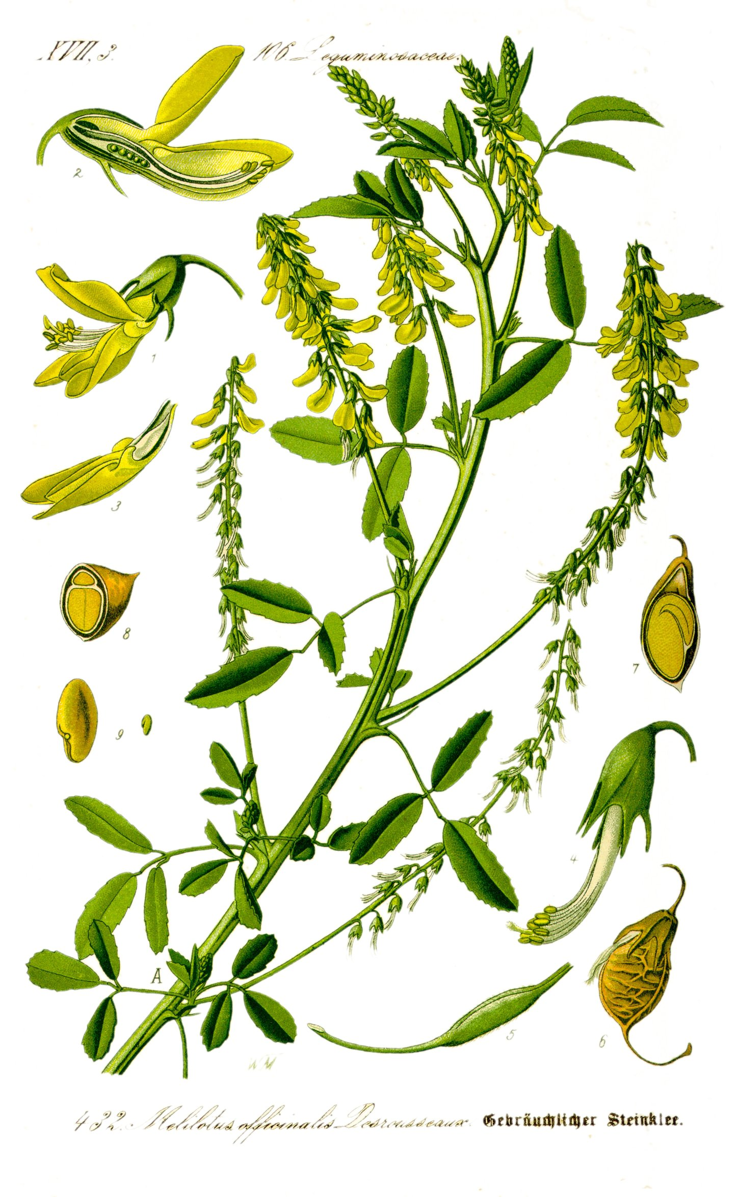 Melilotus officinalis